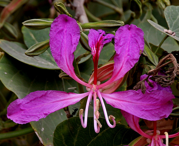 Kaniar, Butterfly tree, Germanium tree, Orchid tree, Sona or Karali Bauhinia purpurea in Hyderabad, India.